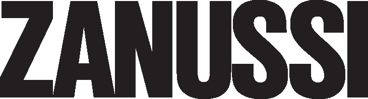 The logo of Zanussi.